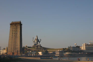 Murudeshwar